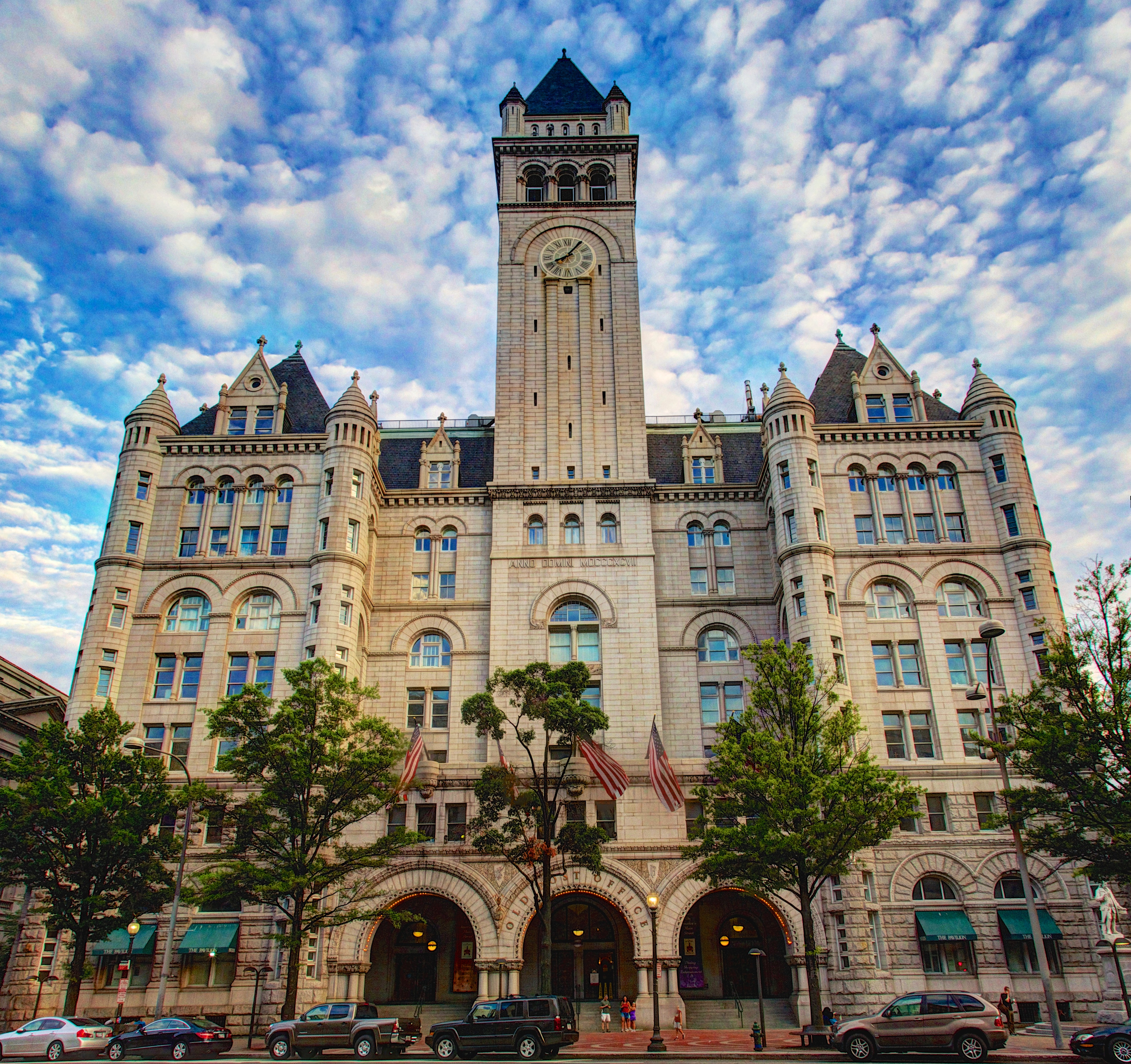 Old Post Office Building, Washington, D.C.